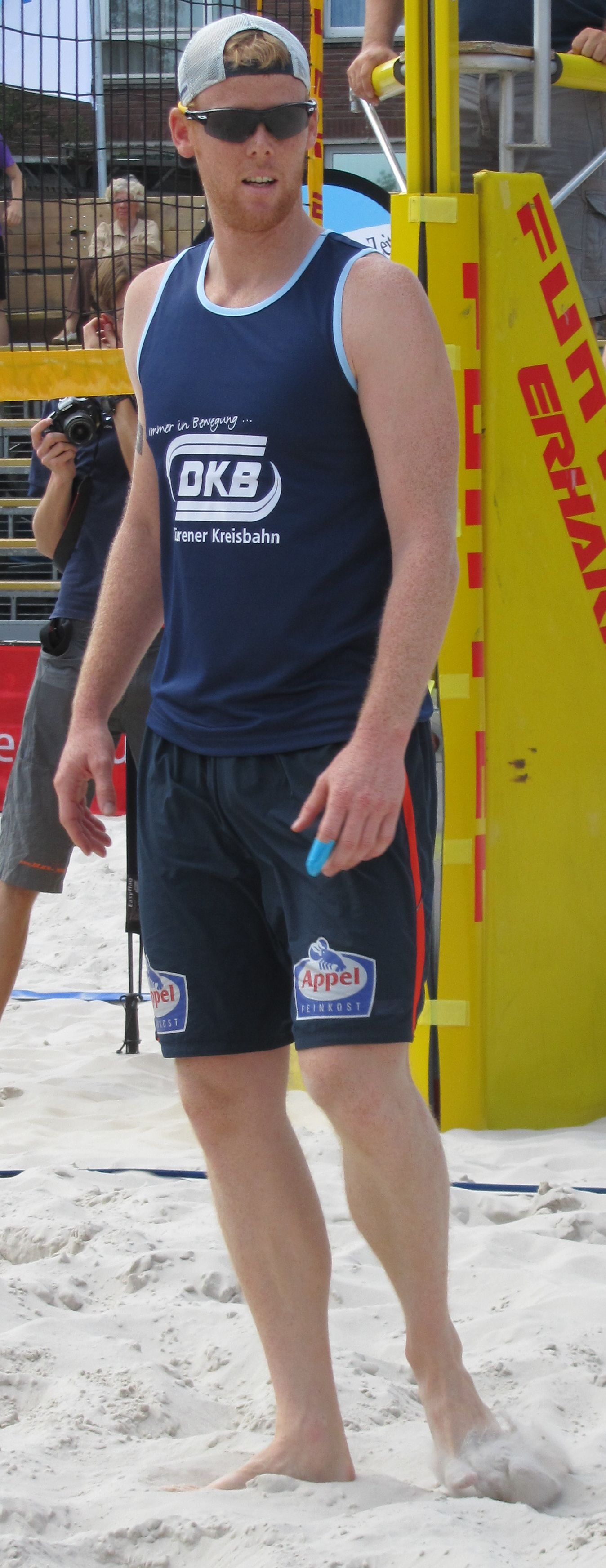 the German beach volleyball player Jonas Reckermann at the DKB Beach Cup 2011 in Düren, Germany